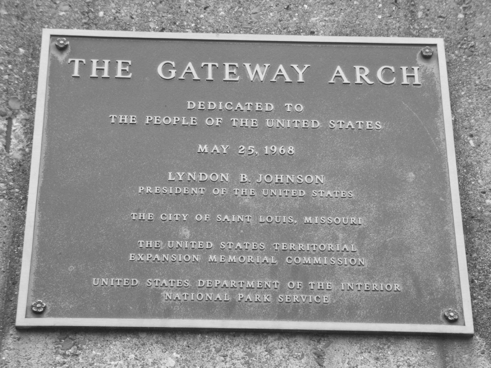 The Gateway Arch Plaque